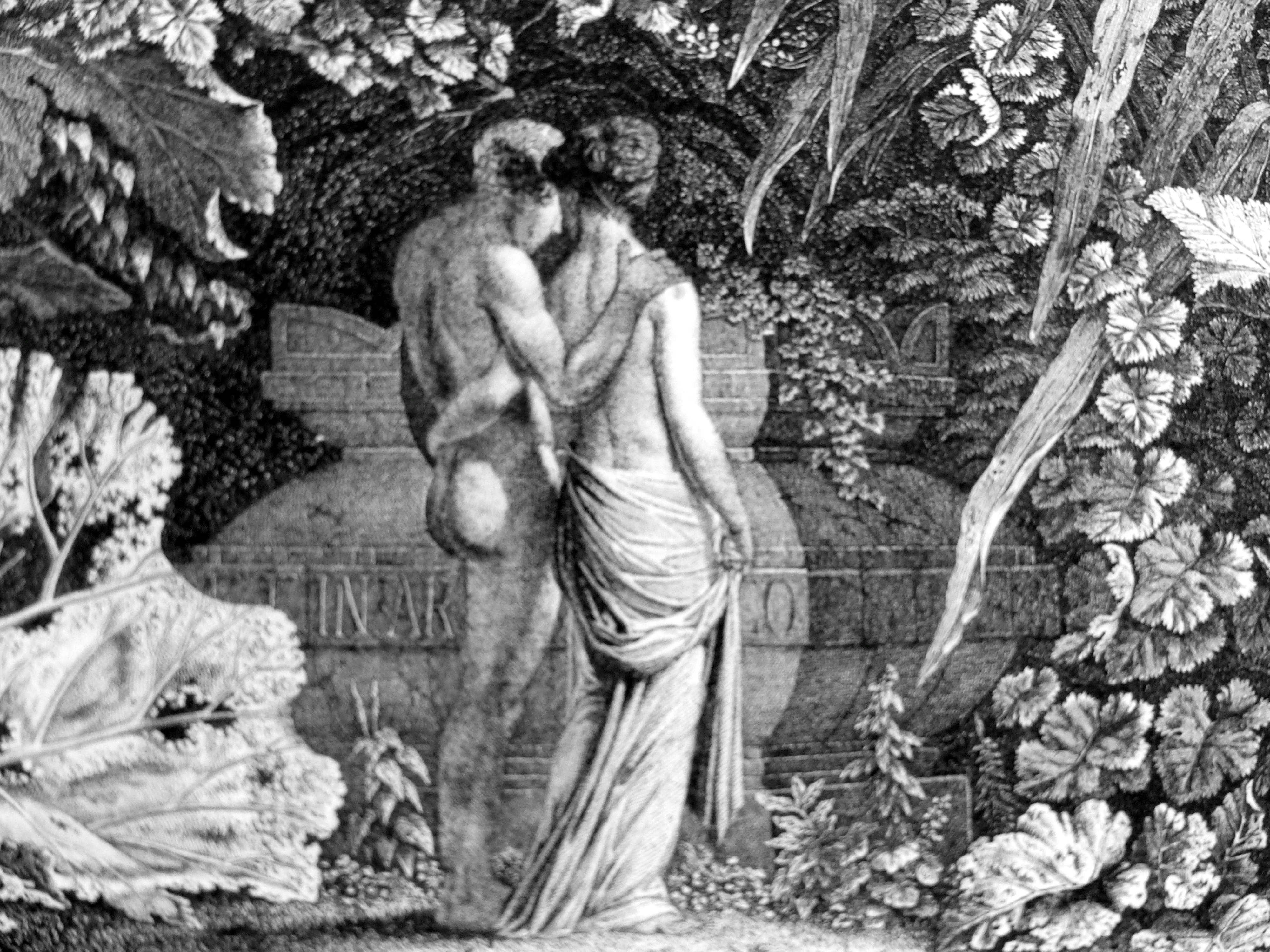 Et in Arcadia Ego. Etching by Carl Wilhelm Kolbe, 1801; detail